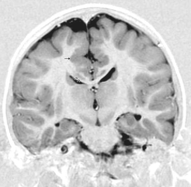 MRI of a child experiencing seizures. There are small foci of grey matter signal in the corpus callosum, deep to the dysplastic cortex (double arrows). These probably represent areas of grey matter heterotopia.